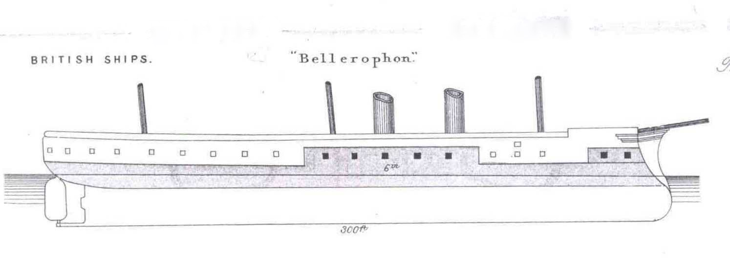 British Battleship HMS Bellerophon, launched 1865. Line drawing from Brassey's Naval Annual 1888